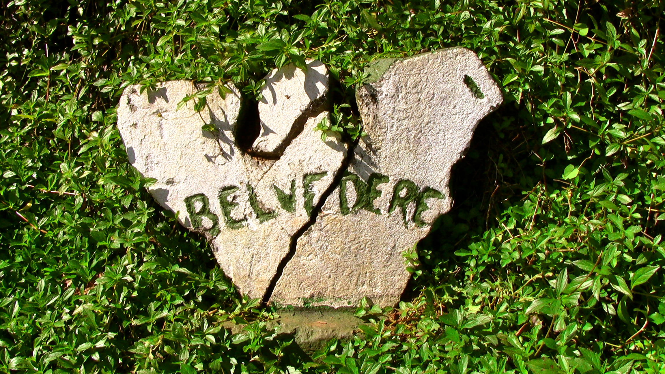 Stone marker at Belvedere Lookout — in Moorea, French Polynesia. 28 June, 2012